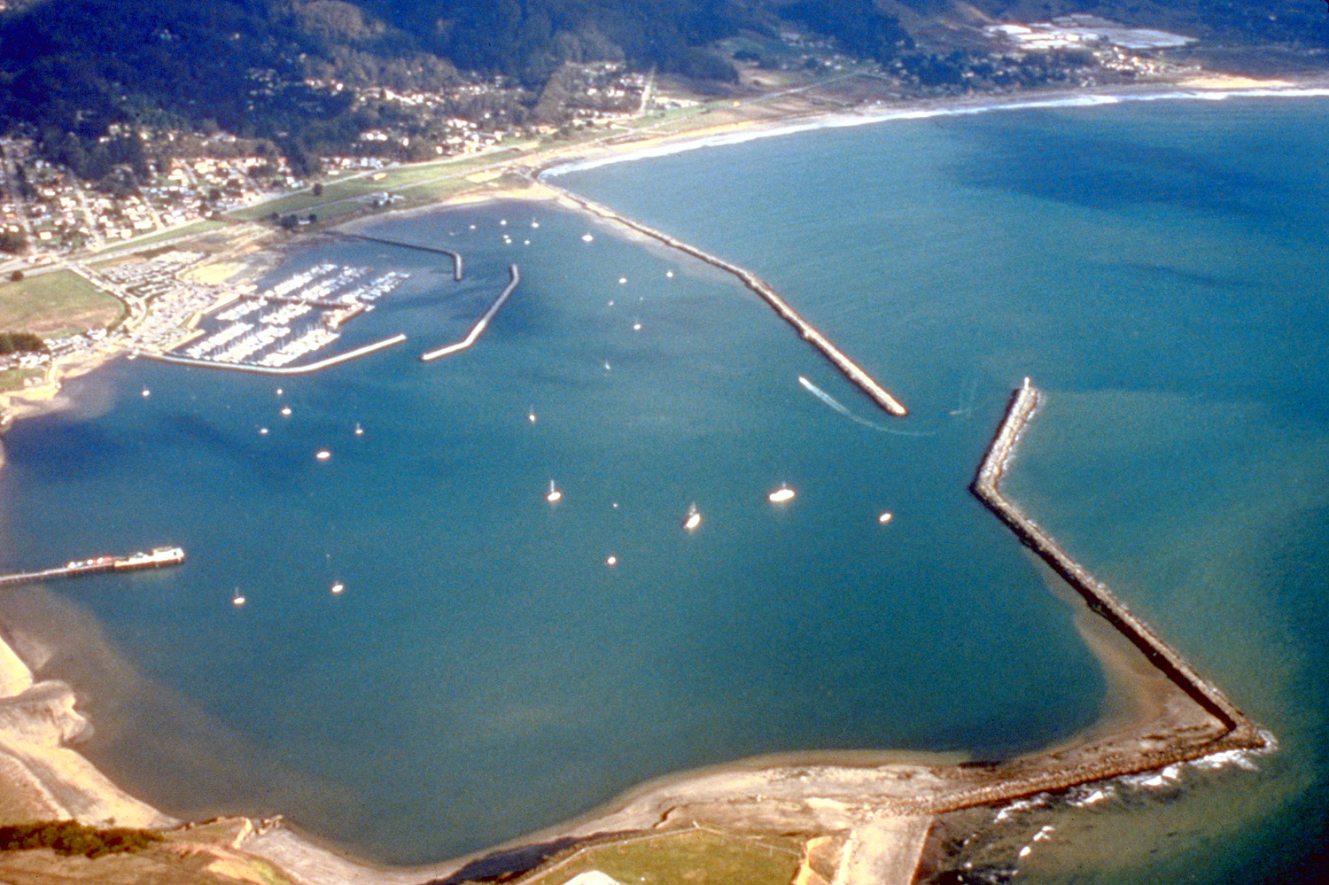 Aerial view of Pillar Point Harbor in San Mateo County, California, USA. The communities of Princeton and El Granada are visible on the shore at the top of the photograph. The U.S. Army Corps of Engineers constructed the breakwaters and harbor. View is to the east. Coordinates: 37°29′57.75″N 122°29′16.91″W / 37.499375°N 122.4880306°W